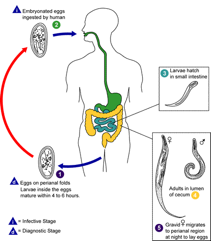 Enterobiasis [Enterobius vermicularis] Life cycle of Enterobius vermicularis 1: Eggs are deposited on perianal folds. 2: Self-infection occurs by transferring infective eggs to the mouth with hands that have scratched the perianal area. 3: Person-to-person transmission can also occur through handling of contaminated clothes or bed linens. Enterobiasis may also be acquired through surfaces in the environment that are contaminated with pinworm eggs (e.g., curtains, carpeting). Some small number of eggs may become airborne and inhaled. These would be swallowed and follow the same development as ingested eggs. Following ingestion of infective eggs, the larvae hatch in the small intestine... 4: and the adults establish themselves in the colon. 5: The time interval from ingestion of infective eggs to oviposition by the adult females is about one month. The life span of the adults is about two months. Gravid females migrate nocturnally outside the anus and oviposit while crawling on the skin of the perianal area. The larvae contained inside the eggs develop (the eggs become infective) in 4 to 6 hours under optimal conditions. 1: Retroinfection, or the migration of newly hatched larvae from the anal skin back into the rectum, may occur but the frequency with which this happens is unknown.